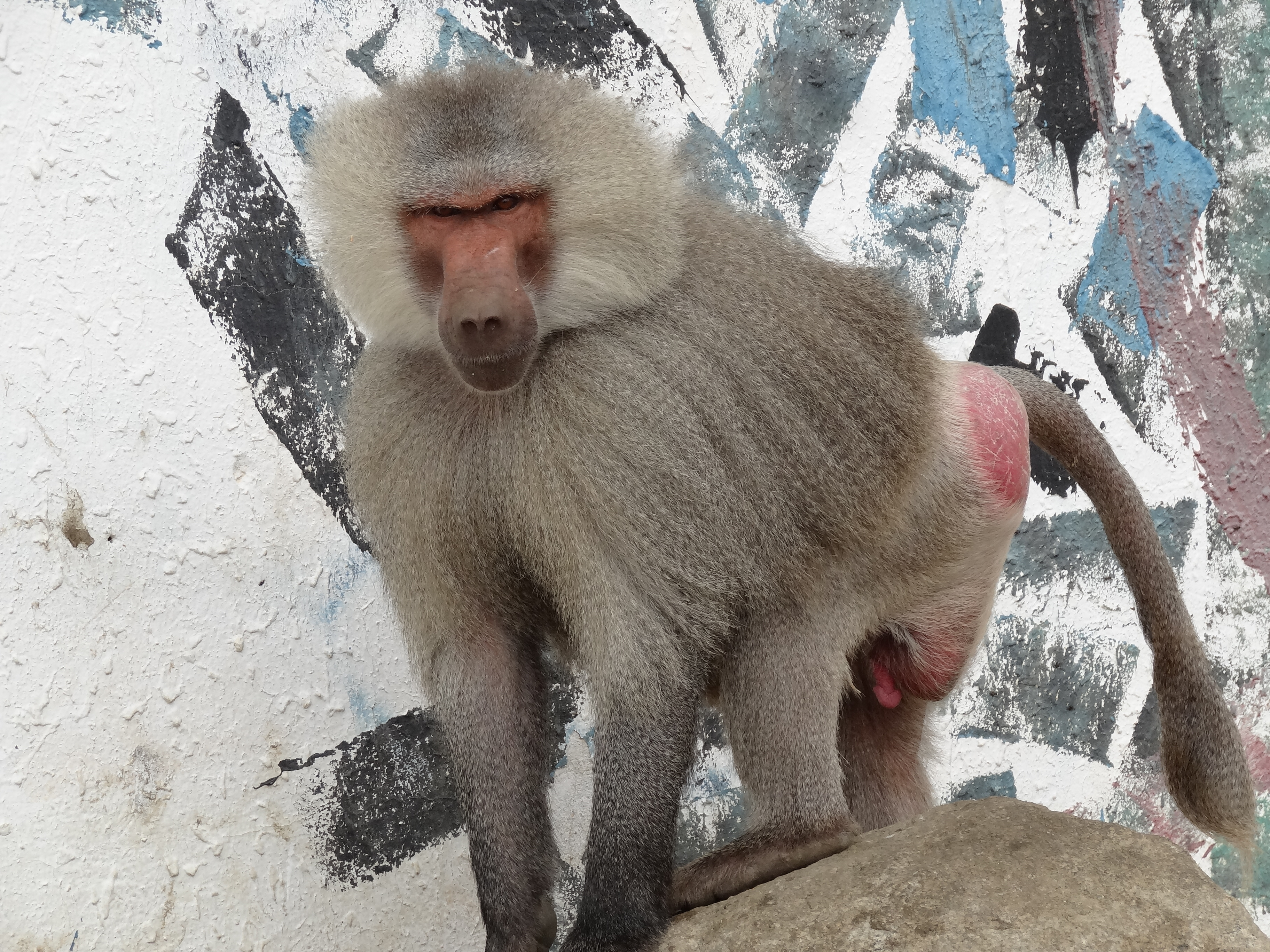 Taif Baboon